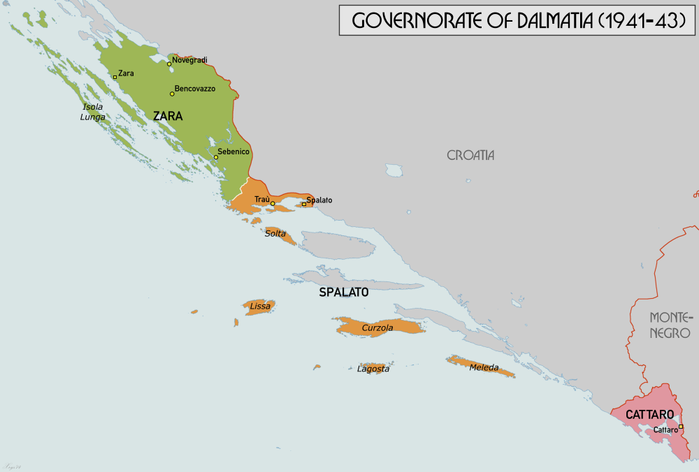 Map of the Governorate of Dalmatia (1941-43) showing the provinces of Zara, Spalato and Cattaro. Source data Volkstumskarte von Jugoslawien, Wilfried Krallert (1941)